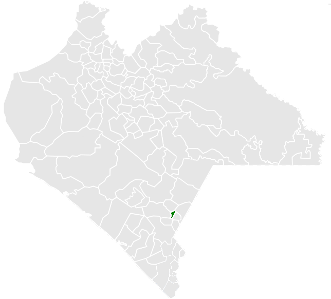 Map of the Municipalty of La Grandeza in the State of Chiapas, México.